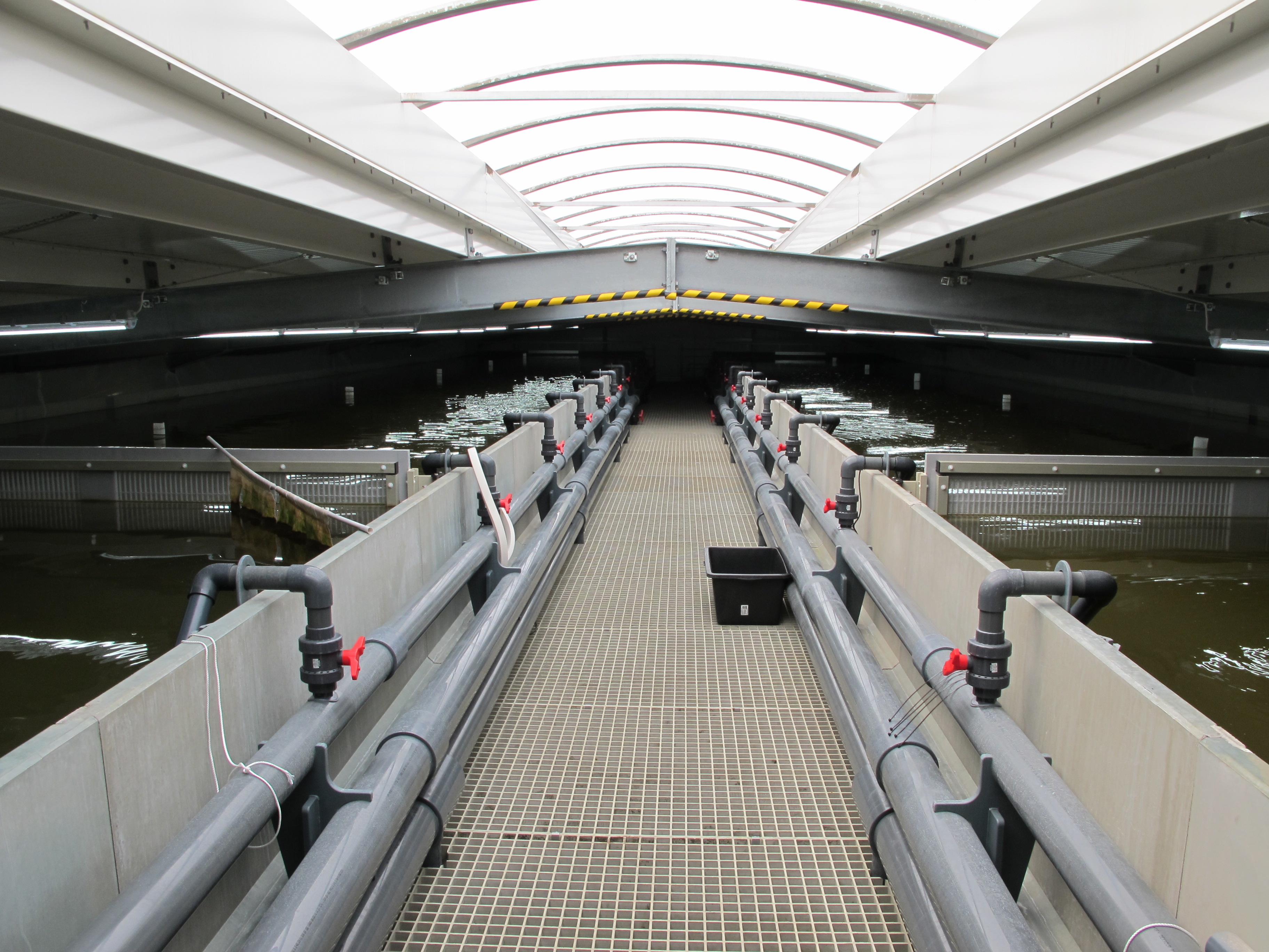 Shrimps farm with see water resistant construction made of unreinforced UHPC (Ultra High Performance Concrete)